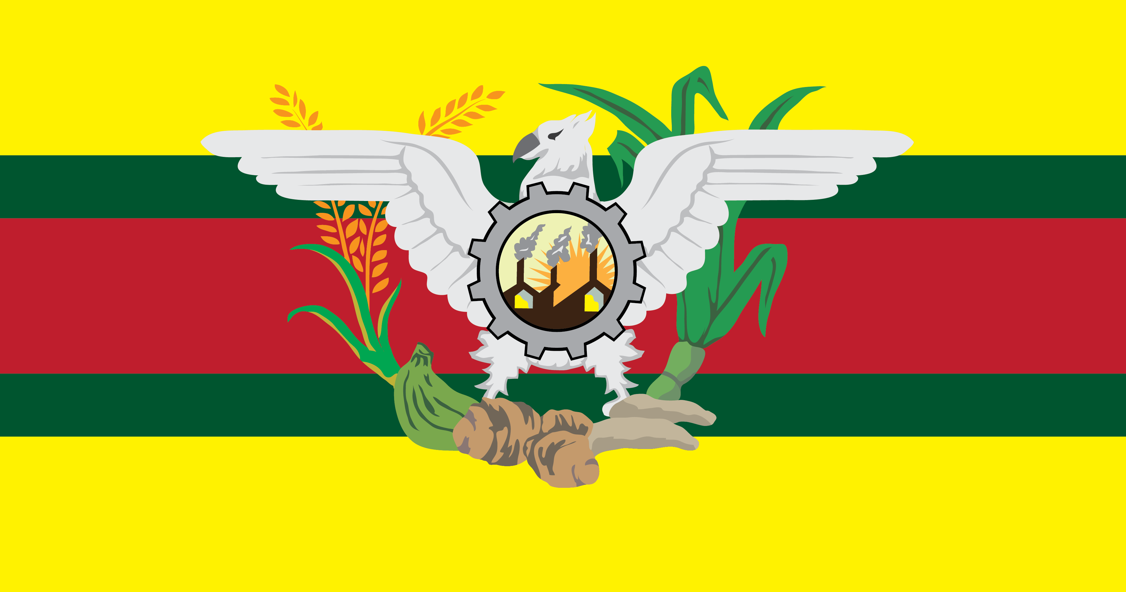 Presidential Standard during the presidency of Cheddi B. Jagan. Proportion is 3:5